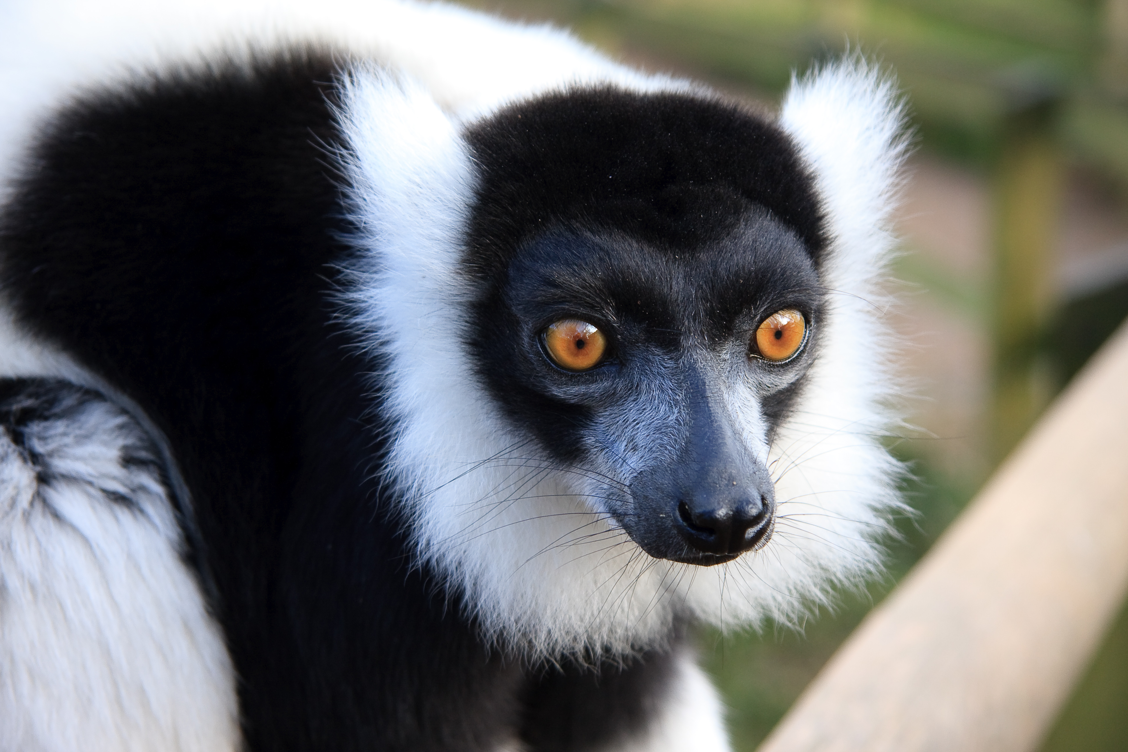 Black-and-white ruffed lemur, Varecia variegata IMG_9095 | Canon40D@81mm | 1\125s | f5.6 | ISO400